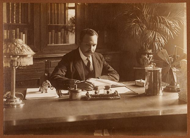 Dutch physicist Paul Flu, probably in the 1930s in Leiden (the Netherlands)